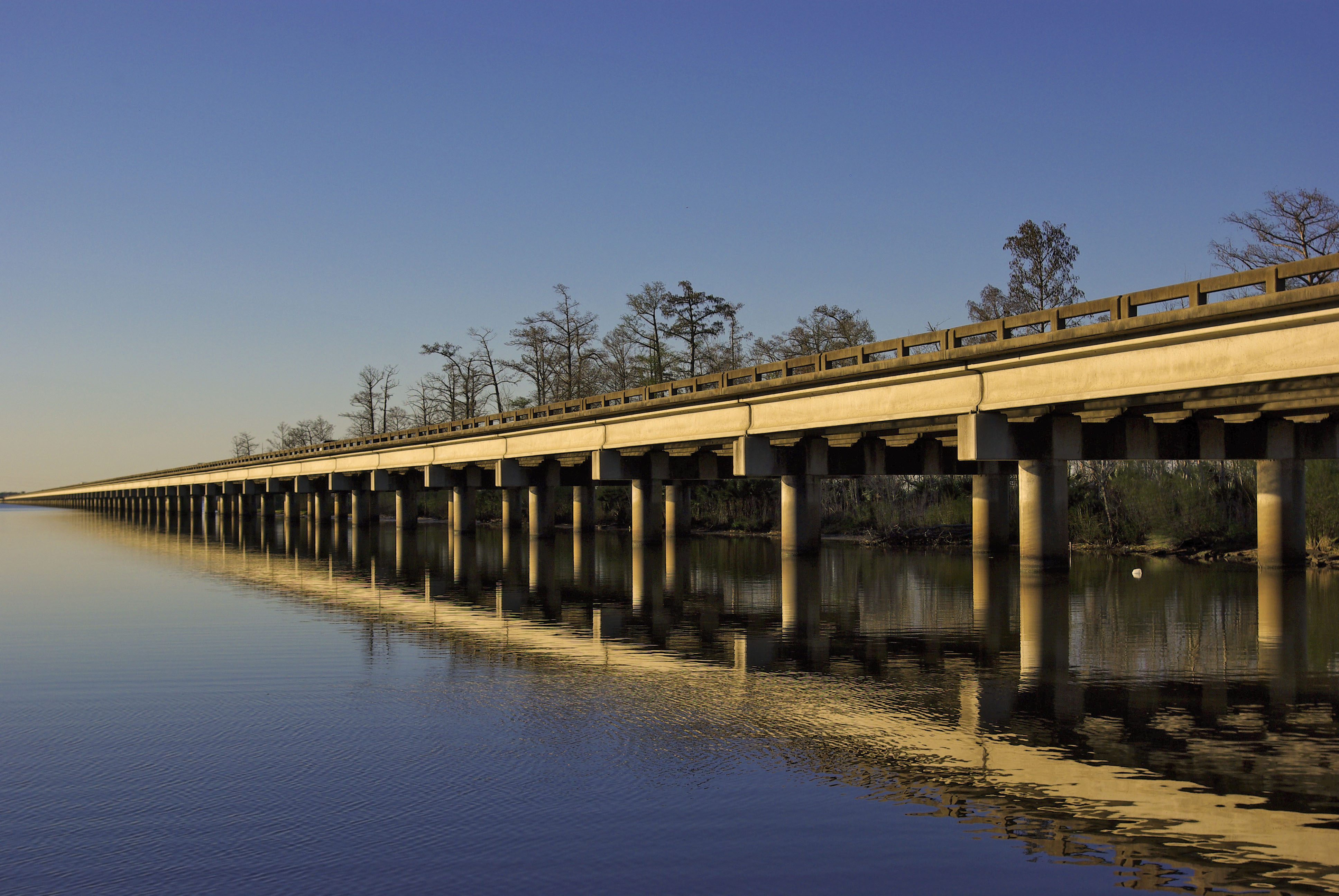 Original description:The I-10, running west of New Orleans, span the Bonnet Carre Spillway at Lake Pontchartrain. 2008